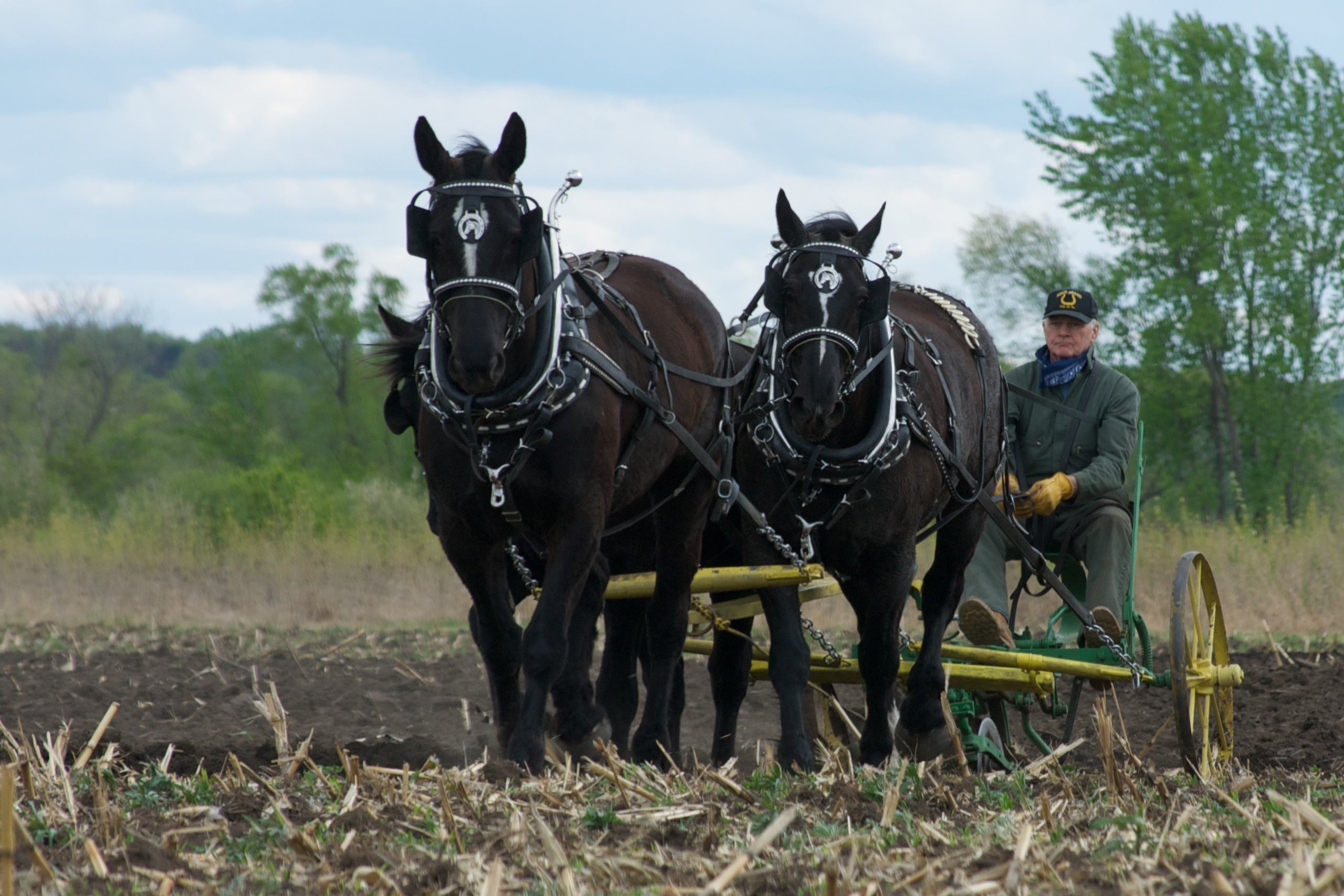 Demonstration of plowing using driving horse at the Prairie Home Carriage Festival at Dakota City Heritage Village in Farmington, MN. The gentlemen doing the demonstration had three very well trained Percheron horses hitched in a "Unicorn Hitch", meaning there was one in front and two behind him.